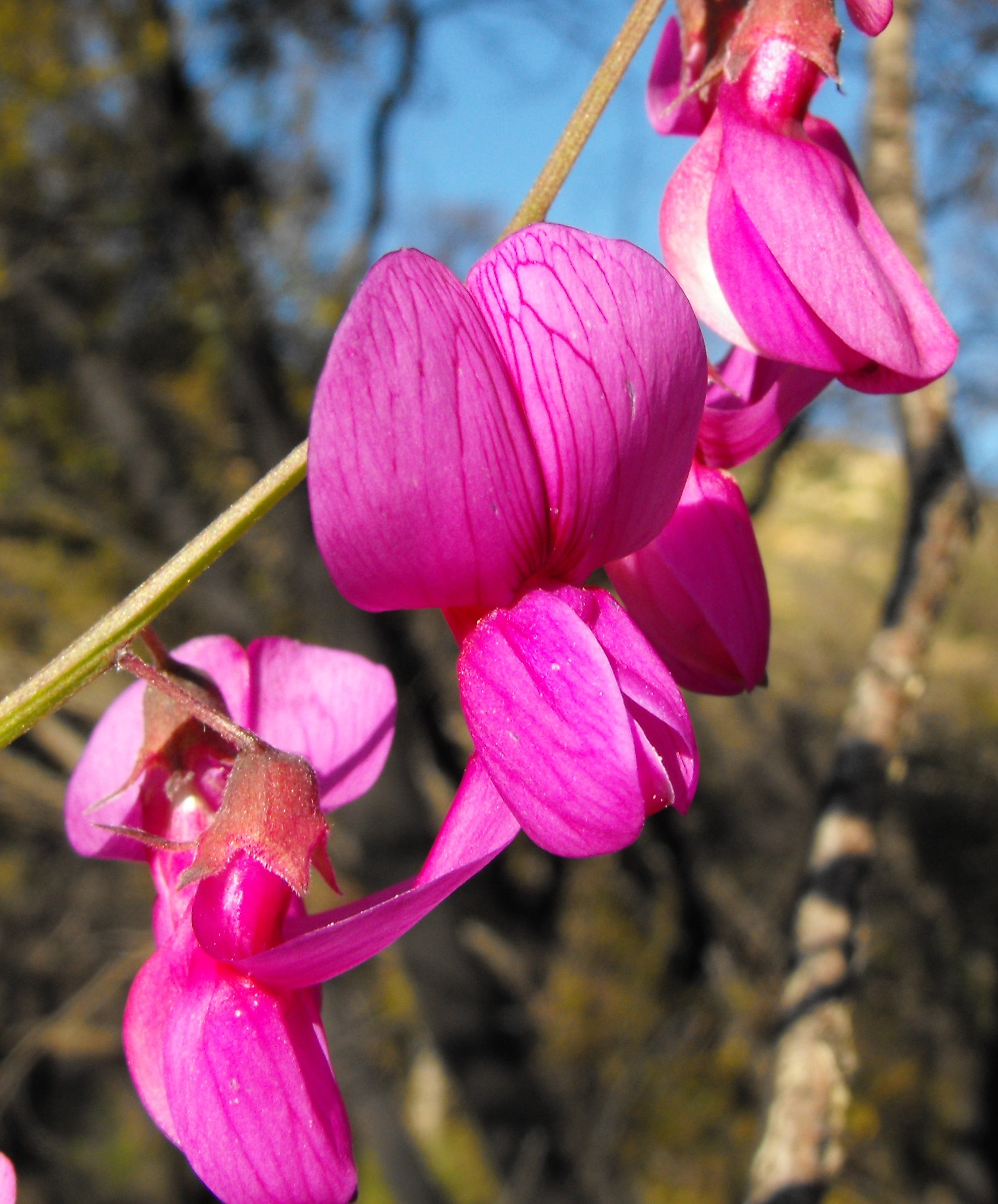 Lathyrus vestitus — Pacific pea. At the Blue Sky Ecological Reserve in the Laguna Mountains, Poway, California.